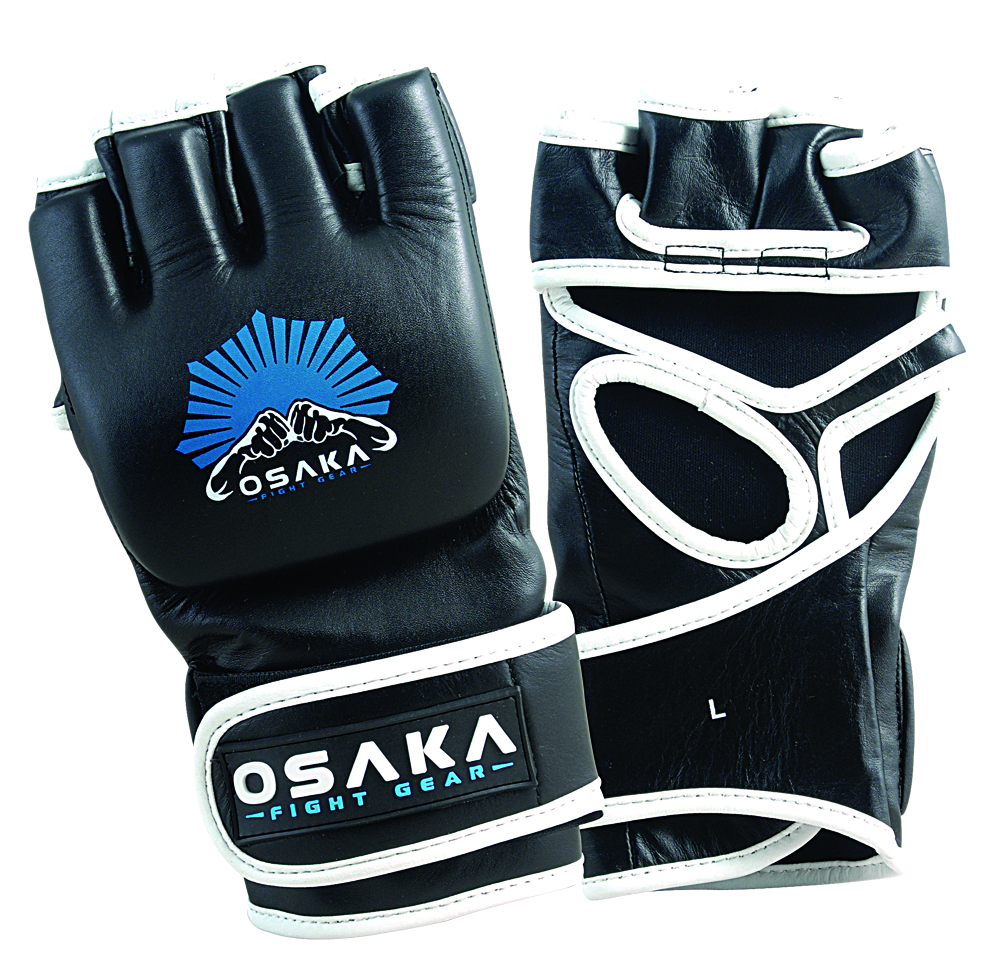 A modern pair of MMA Glove Open Fingered